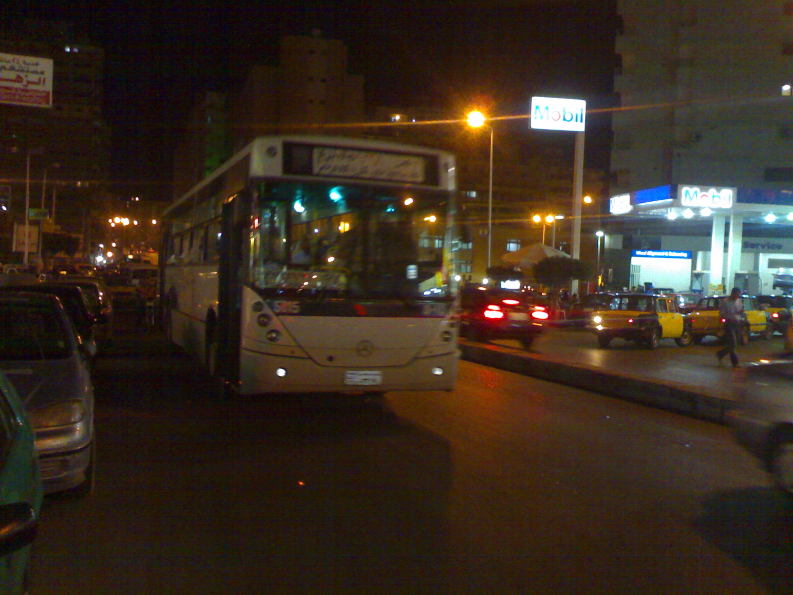 Bus in Alexandria.